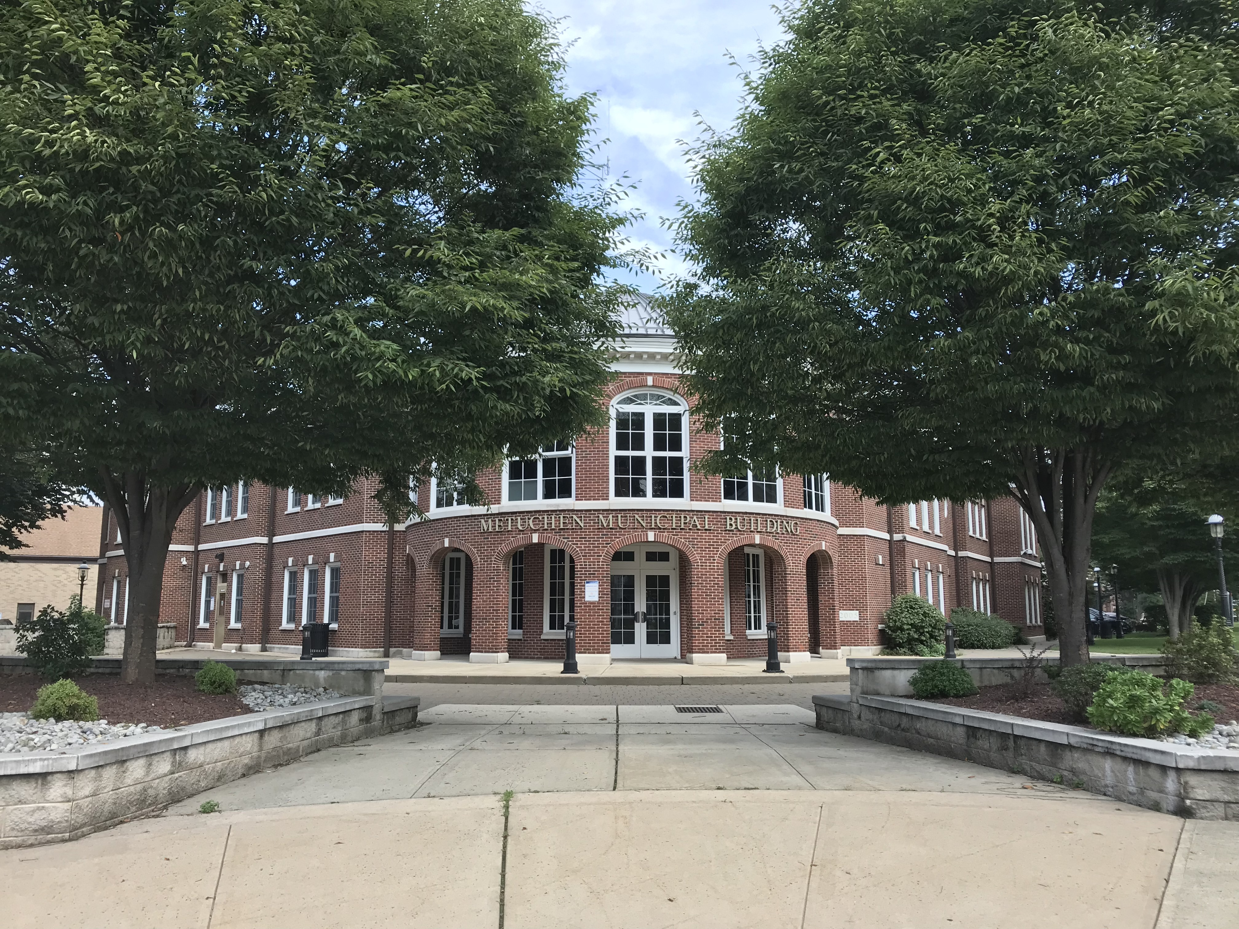 Metuchen Borough Hall is located at 500 Main Street in Metuchen NJ. The lettering on the front of the building is now Metuchen Municipal Building.